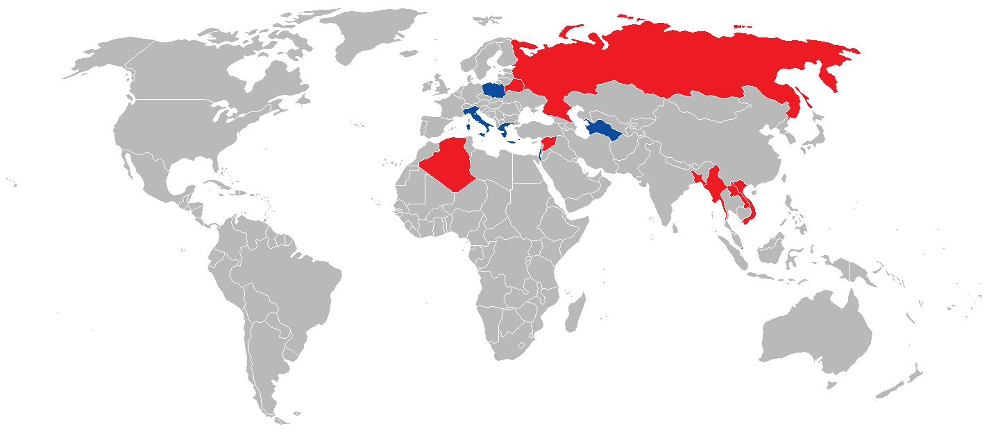 Operators of the M-346 Master.